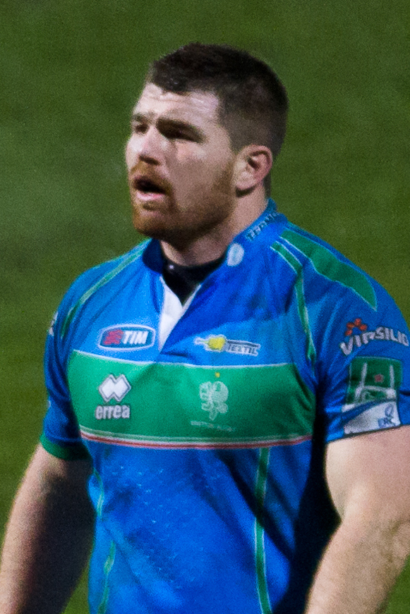 The Italian rugby union player Michele Rizzo during Toulouse vs Benetton Rugby, Heineken Cup, January 13th 2013